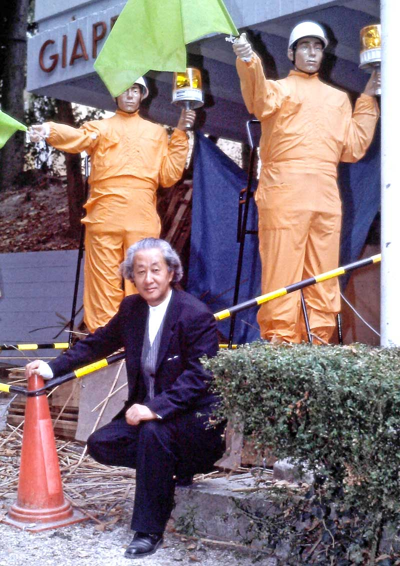 Arata Isozaki - 1996